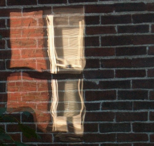 Old glass showing distortions © 2004 Wyatt Greene